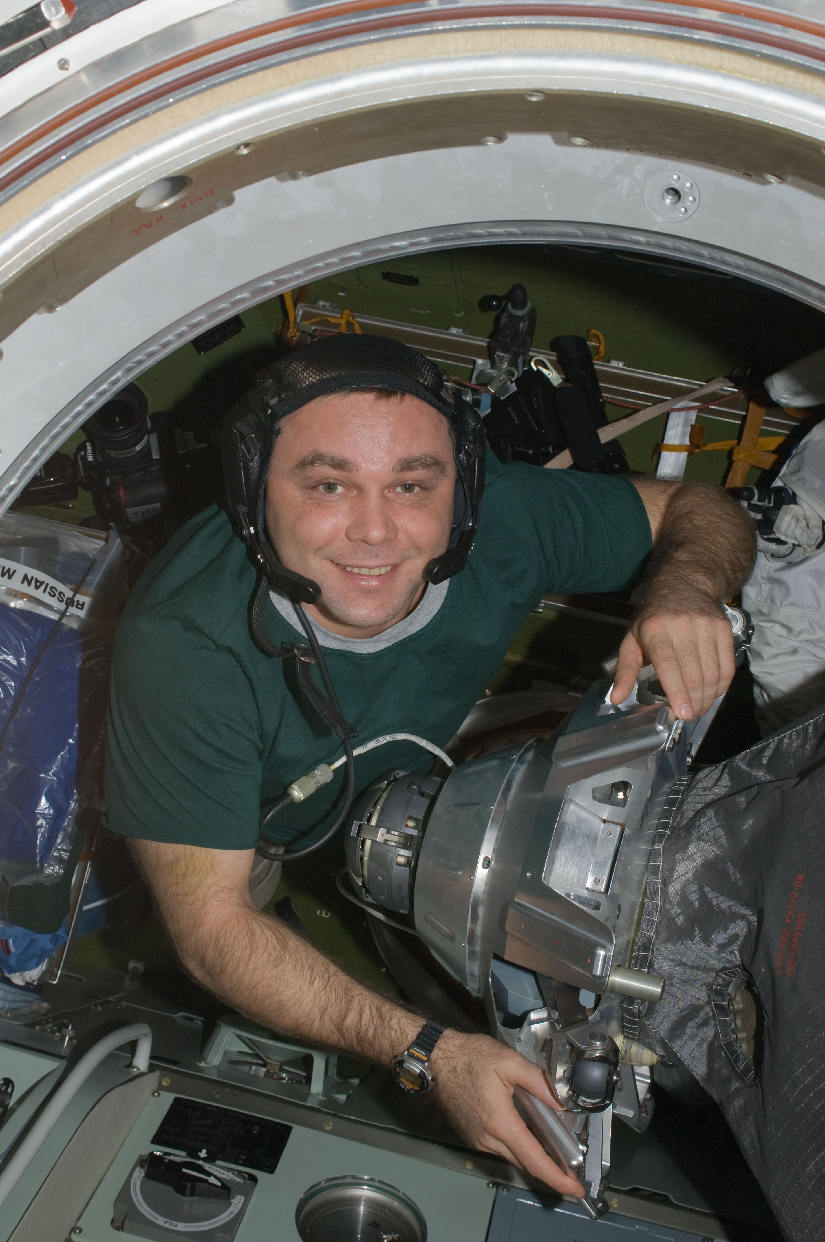 Wearing communication headgear, Russian cosmonaut Maxim Suraev, Expedition 22 flight engineer, works in the Pirs Docking Compartment of the International Space Station.